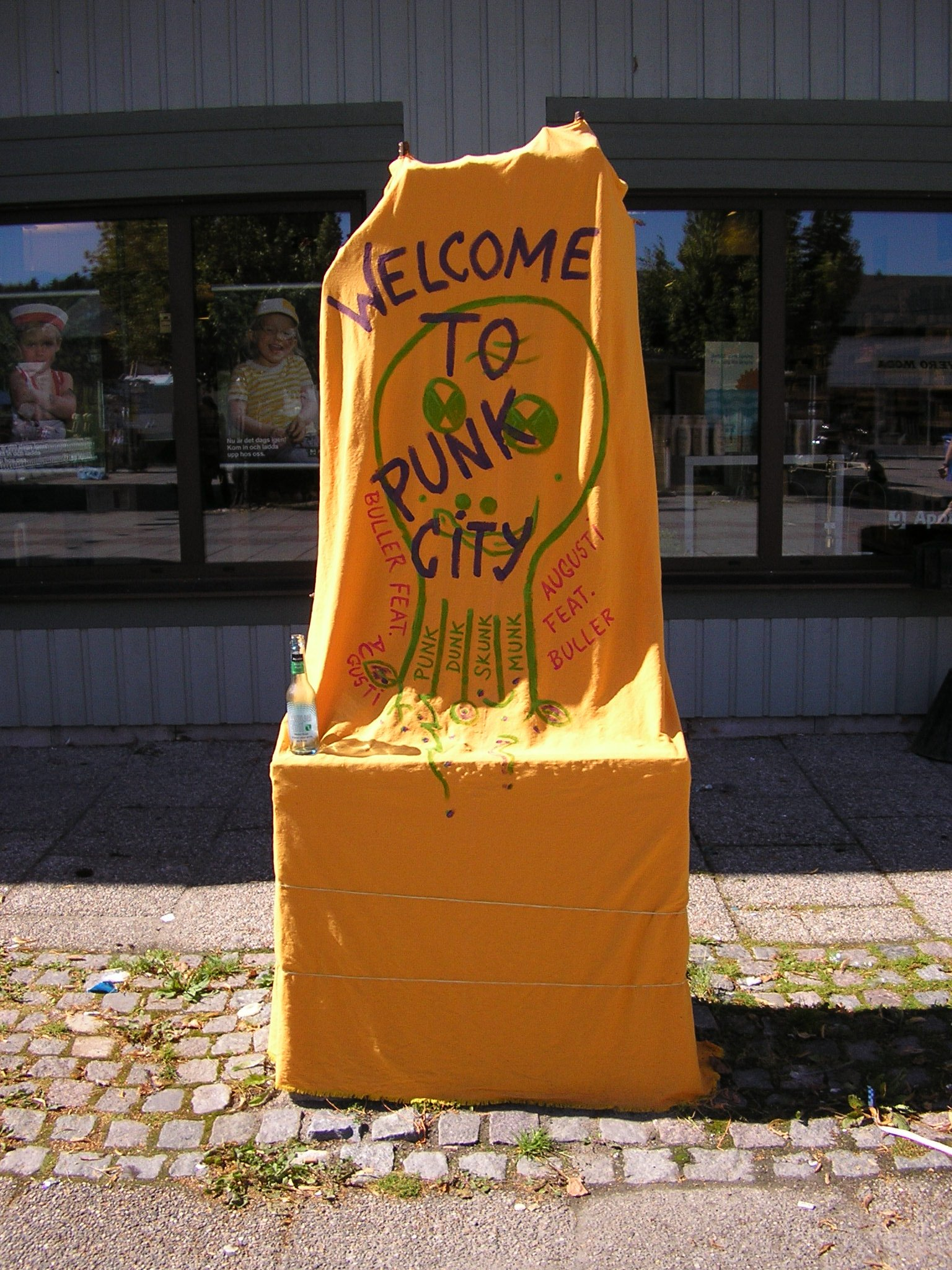 Punk City - a monument at the central square in Lindesberg.